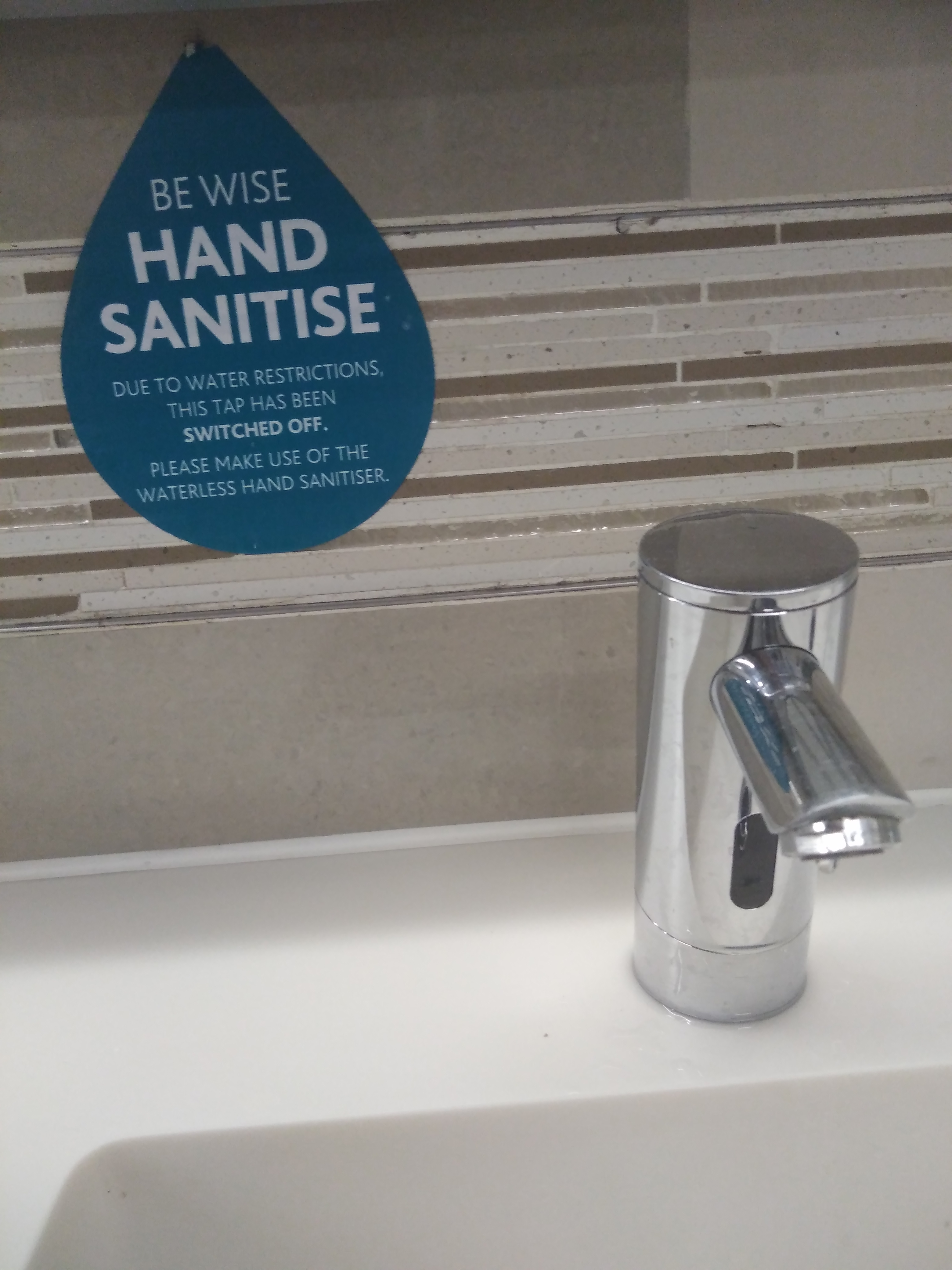 Turned off tab in public restroom in Cape town 2018